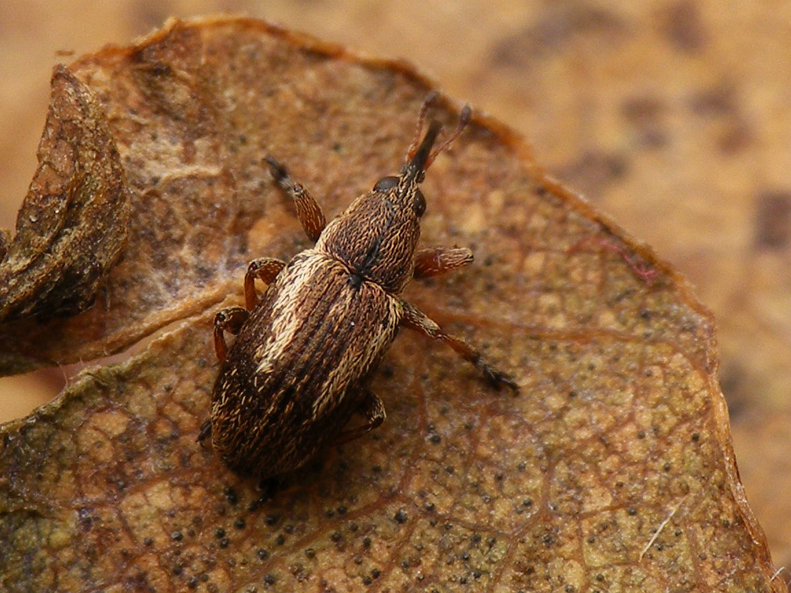 Series of a specimen of Exapion fuscirostre (a little under 3mm) with a few details; Location: Havelterberg, Netherlands